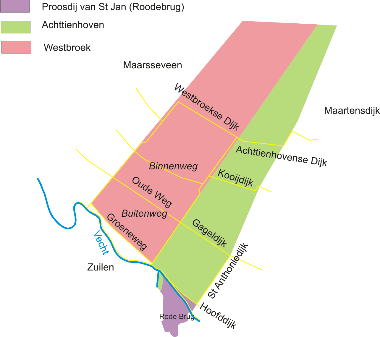 map of Achttienhoven and Westbroek in the province of Utrecht